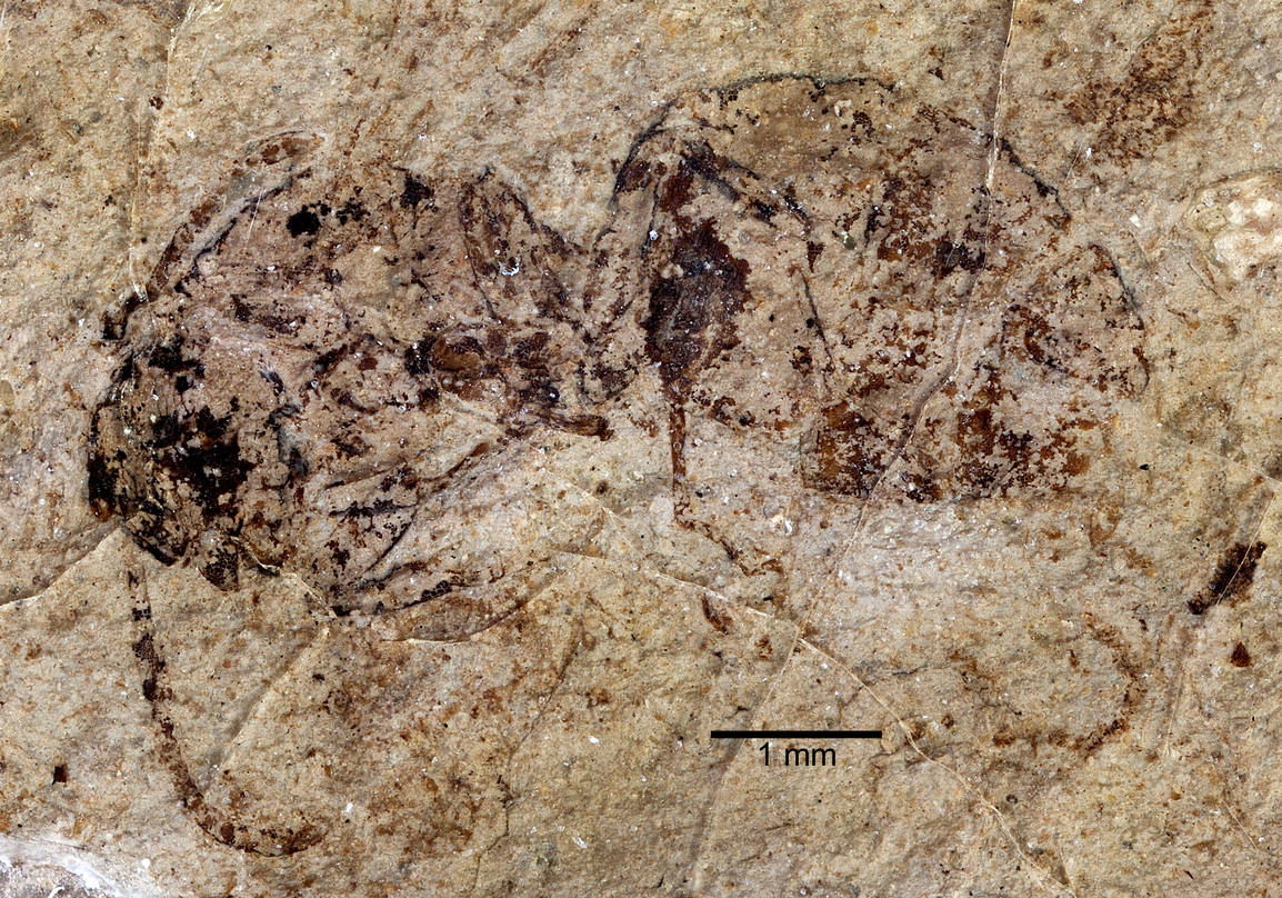 Close-up of the Dolichoderus antiquus paratype queen. Chadronian, Late Eocene; Florissant Formation, Florissant, Colorado, U.S.A. University of Colorado Natural History Museum, Boulder, Colorado, U.S.A.; specimen UCM17000